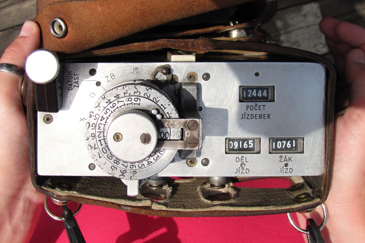 A Setright ticket machine.